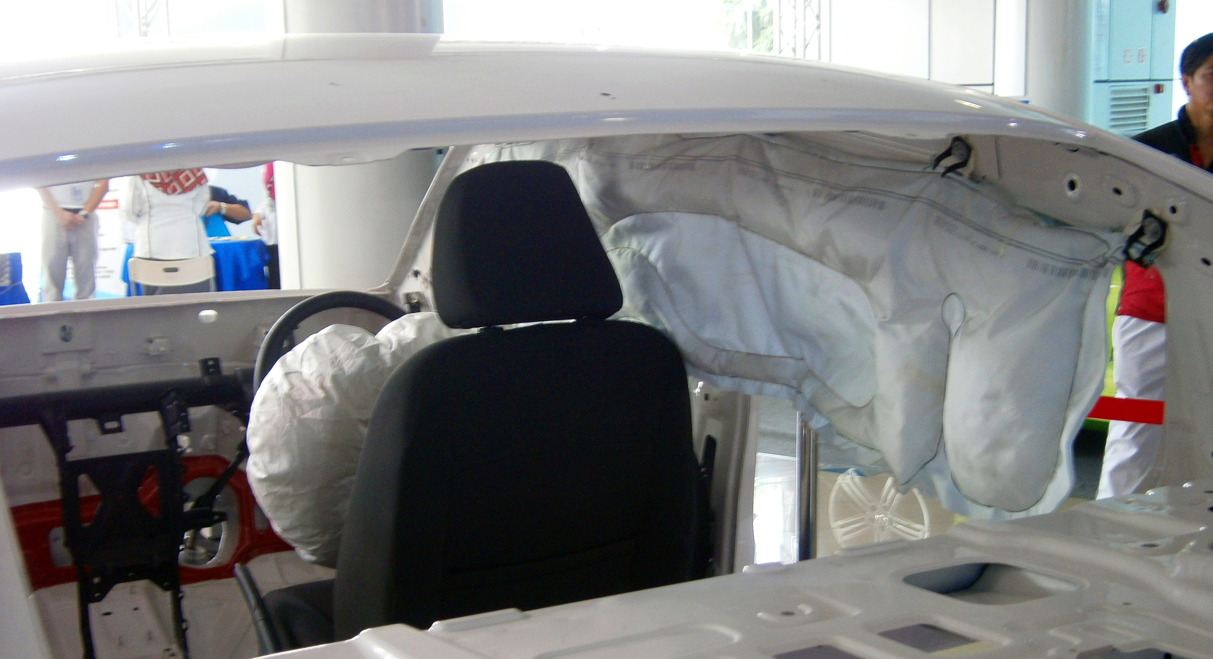 Proton Prevé RESS (Reinforced Safety Structure). Designed & Assembled in Malaysia